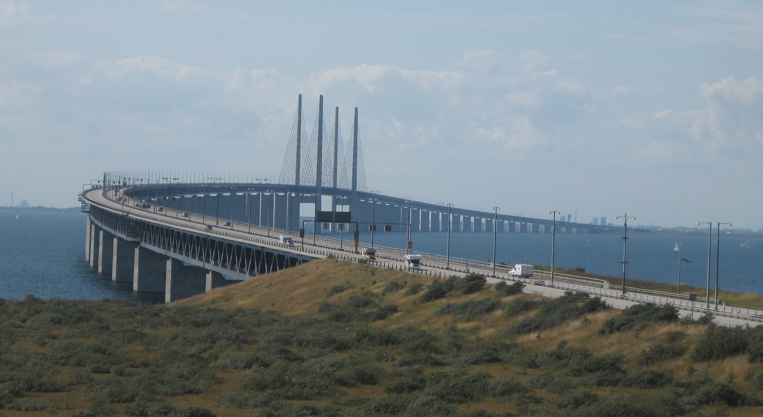 The Öresund Bridge from Lernacken.